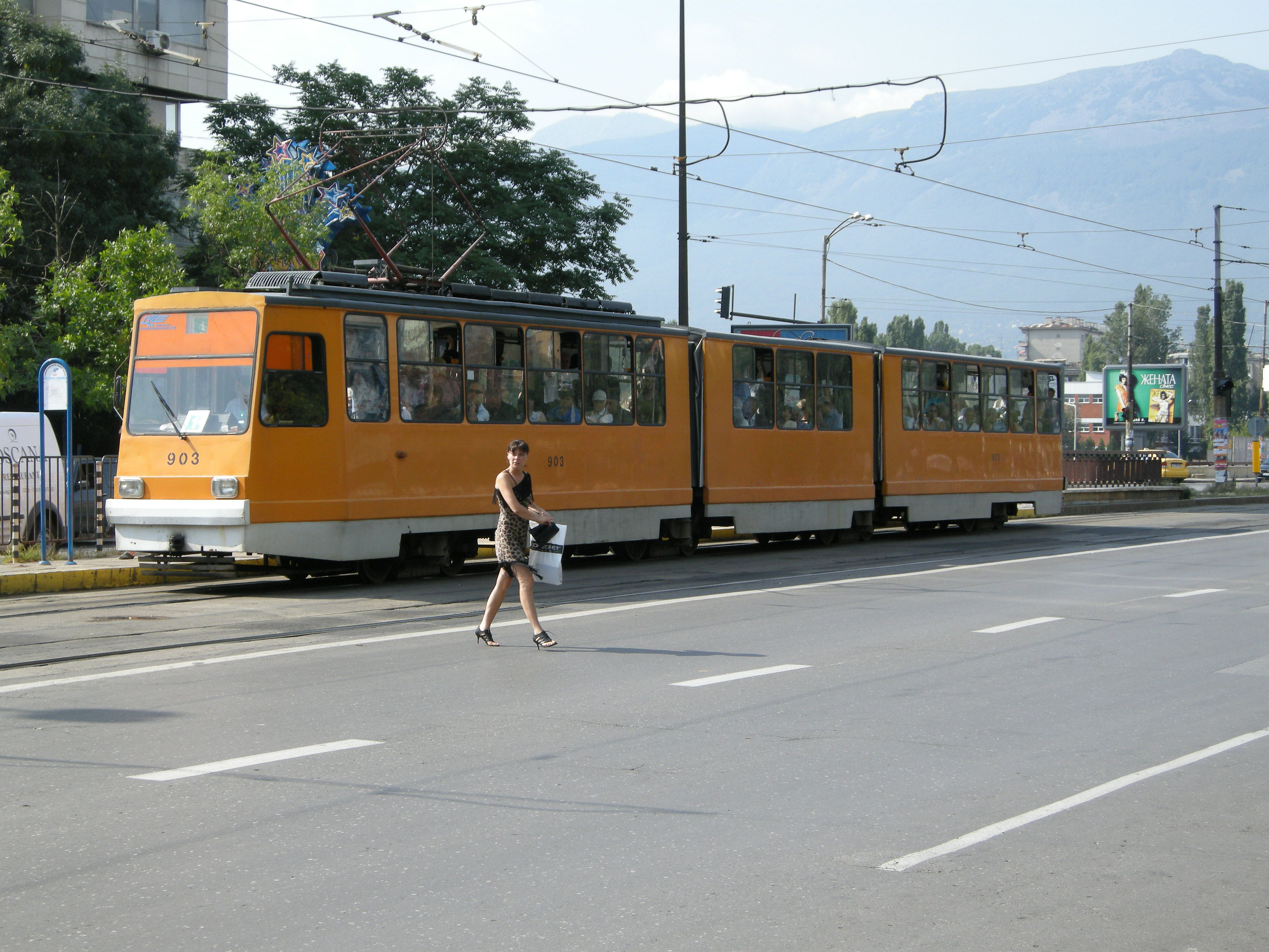 A tram in Sofia, Bulgaria.